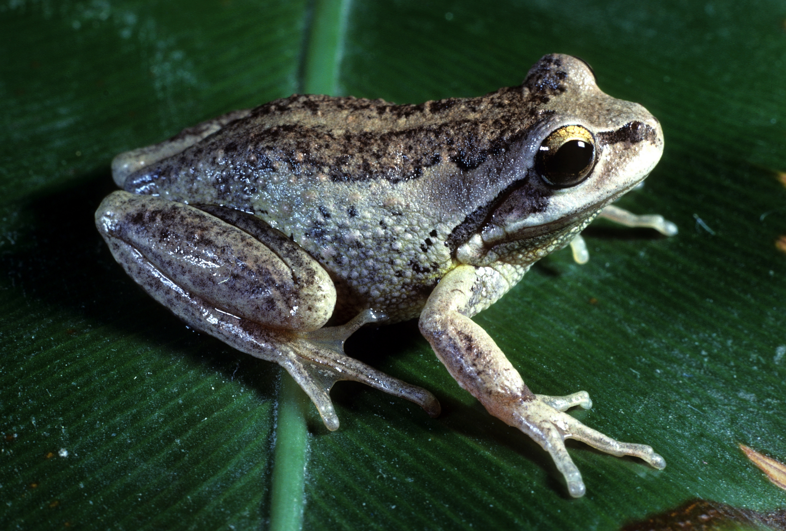 Whistling Verreaux's Tree Frog – Litoria verreauxii